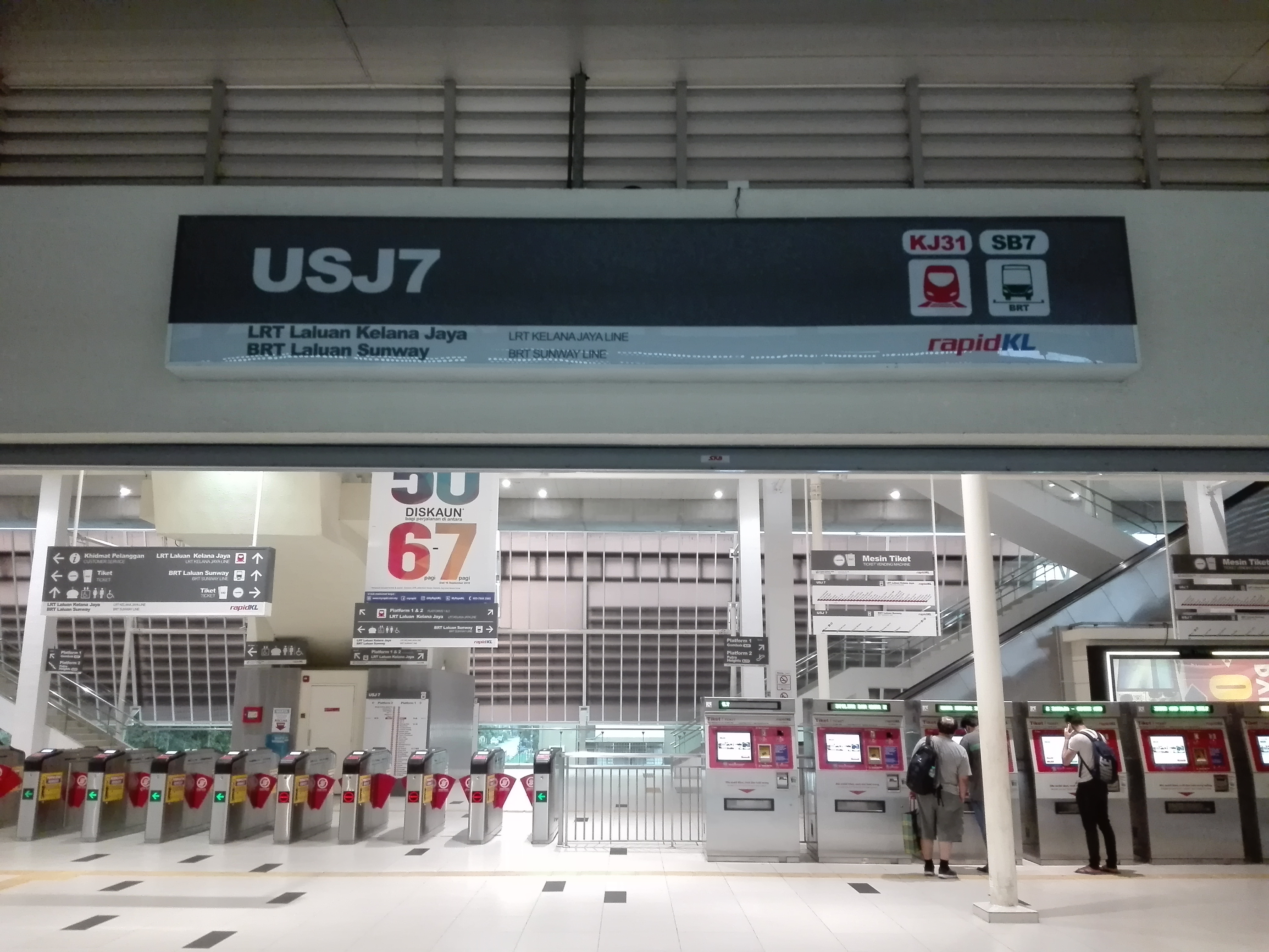 The entrance to USJ 7 BRT and LRT entrance. The faregates and the elevator after it can be seen. The elevators lead to the LRT platforms, while making a turn to your right would lead you to the BRT platform.